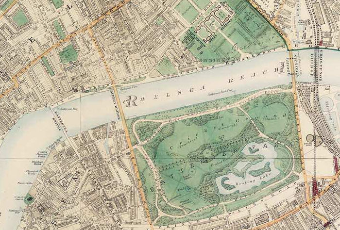 Battersea & Chelsea, 1746